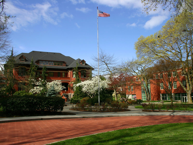 SPU Campus